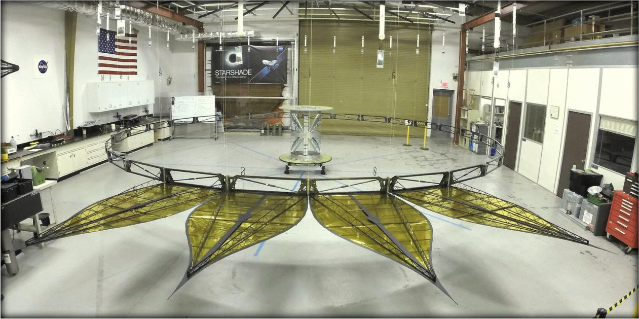 Starshade Deployed at JPL This image shows a deployed half-scale starshade with four petals at NASA's Jet Propulsion Laboratory, Pasadena, California in 2014. The full-scale of this starshade (not shown) will measure at 111 feet (34 meters). The flower-like petals of the starshade are designed to diffract bright starlight away from telescopes seeking the dim light of exoplanets. The starshade was re-designed from earlier models to allow these petals to furl, or wrap around the spacecraft, for launch into space. Each petal is covered in a high-performance plastic film that resembles gold foil. On a starshade ready for launch, the thermal gold foil will only cover the side of the petals facing away from the telescope, with black on the other, so as not to reflect other light sources such as the Earth into its lens. The starshade is light enough for space and cannot support its own weight on Earth. Is it shown offloaded with counterweights, much like an elevator. Starlight-blocking technologies such as the starshade are being developed to help image exoplanets, with a focus on Earth-sized, habitable worlds.